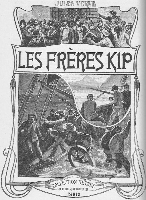 An illustration from Jules Verne's novel "The Kip Brothers" drawn by George Roux.